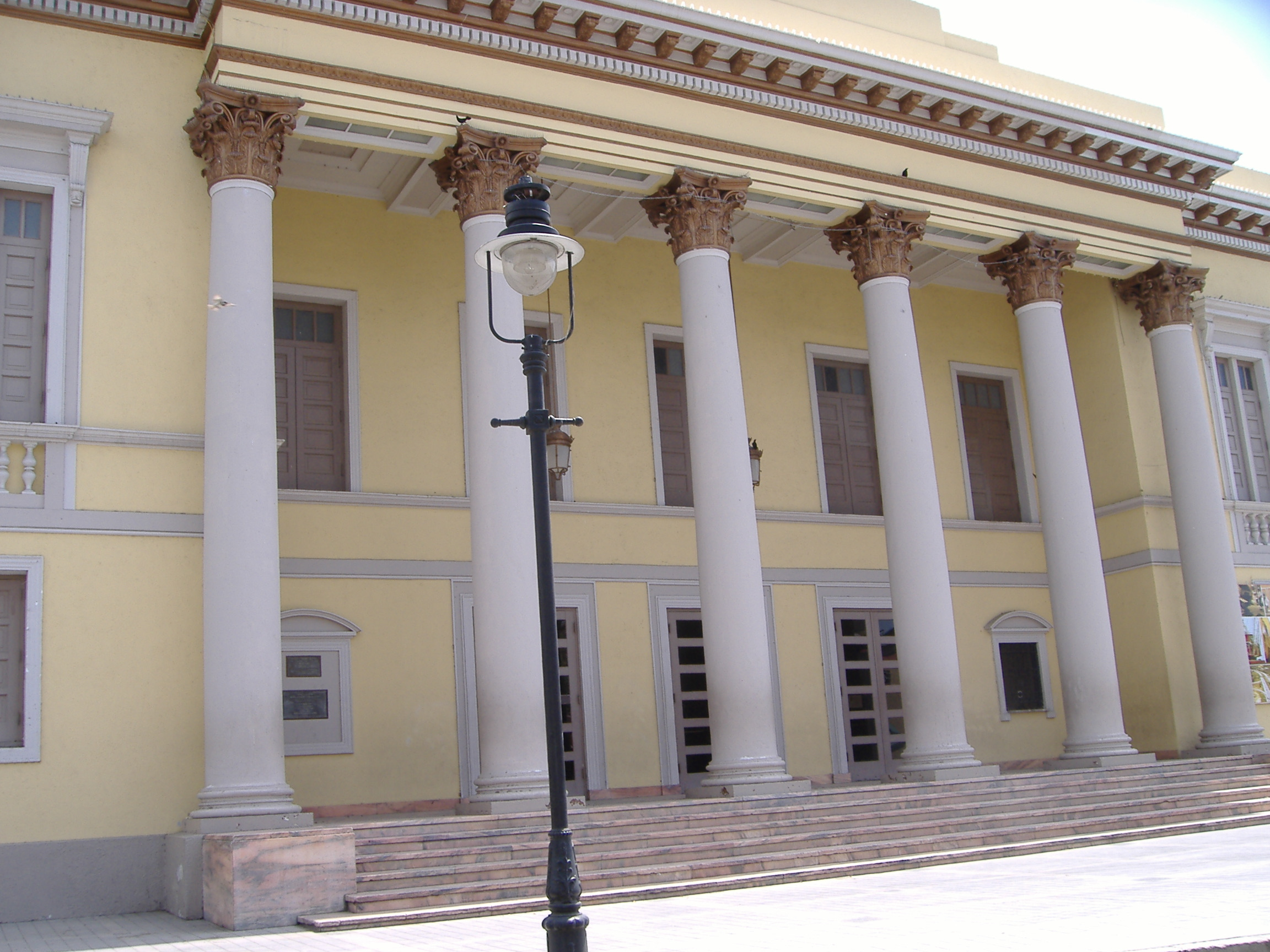 Front view of the La Perla Theater in Ponce.